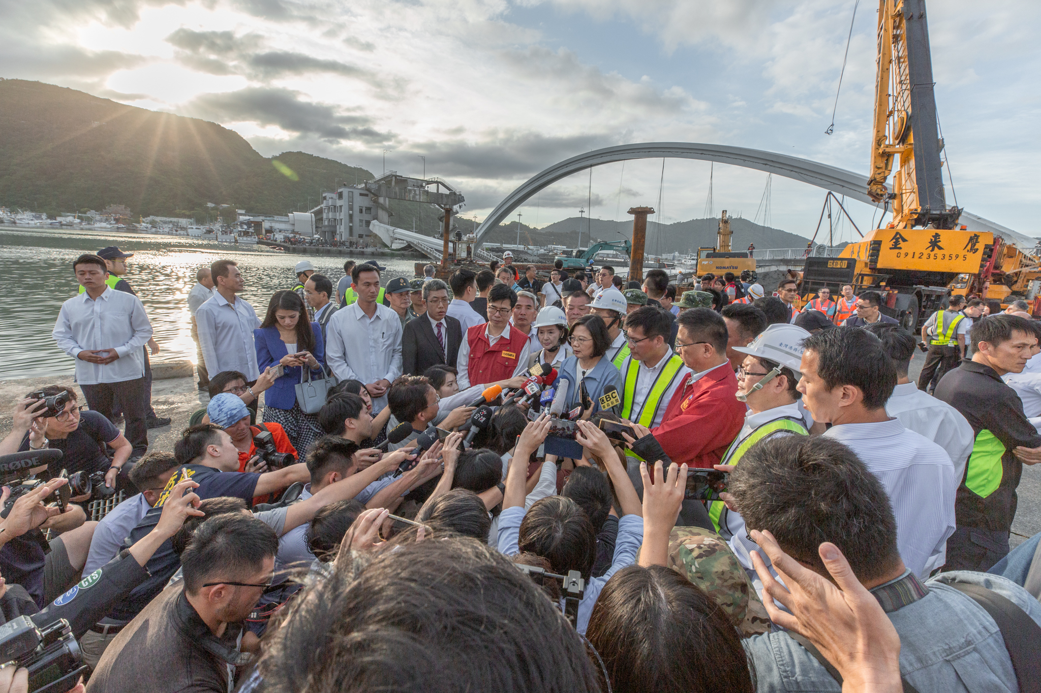 Official Photo by Mori / Office of the President 2020. 10.01 總統視察宜蘭南方澳跨港大橋崩塌搜救進度